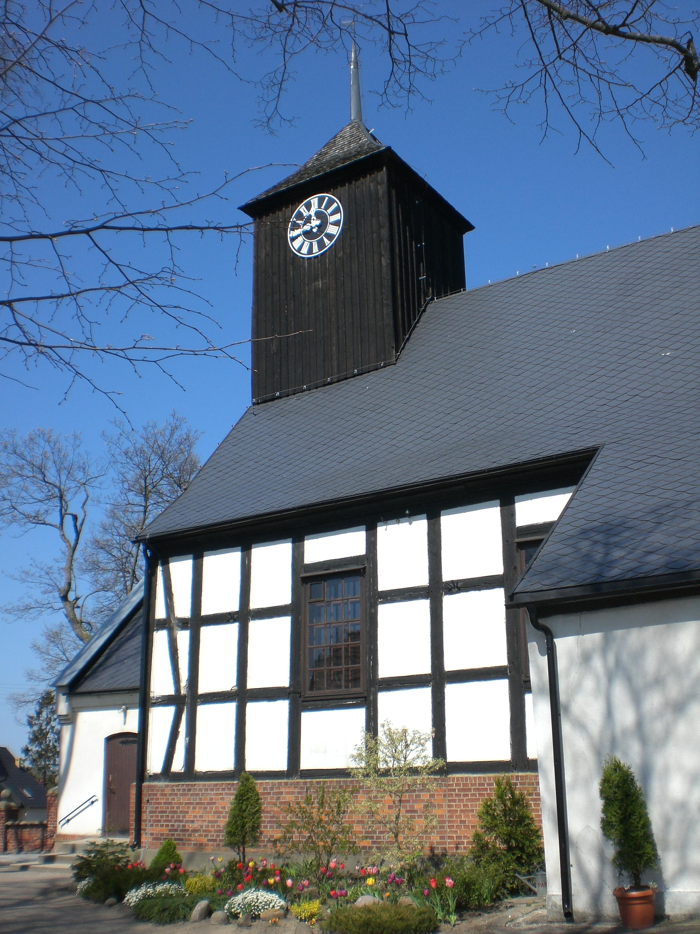 Church in Sianowo